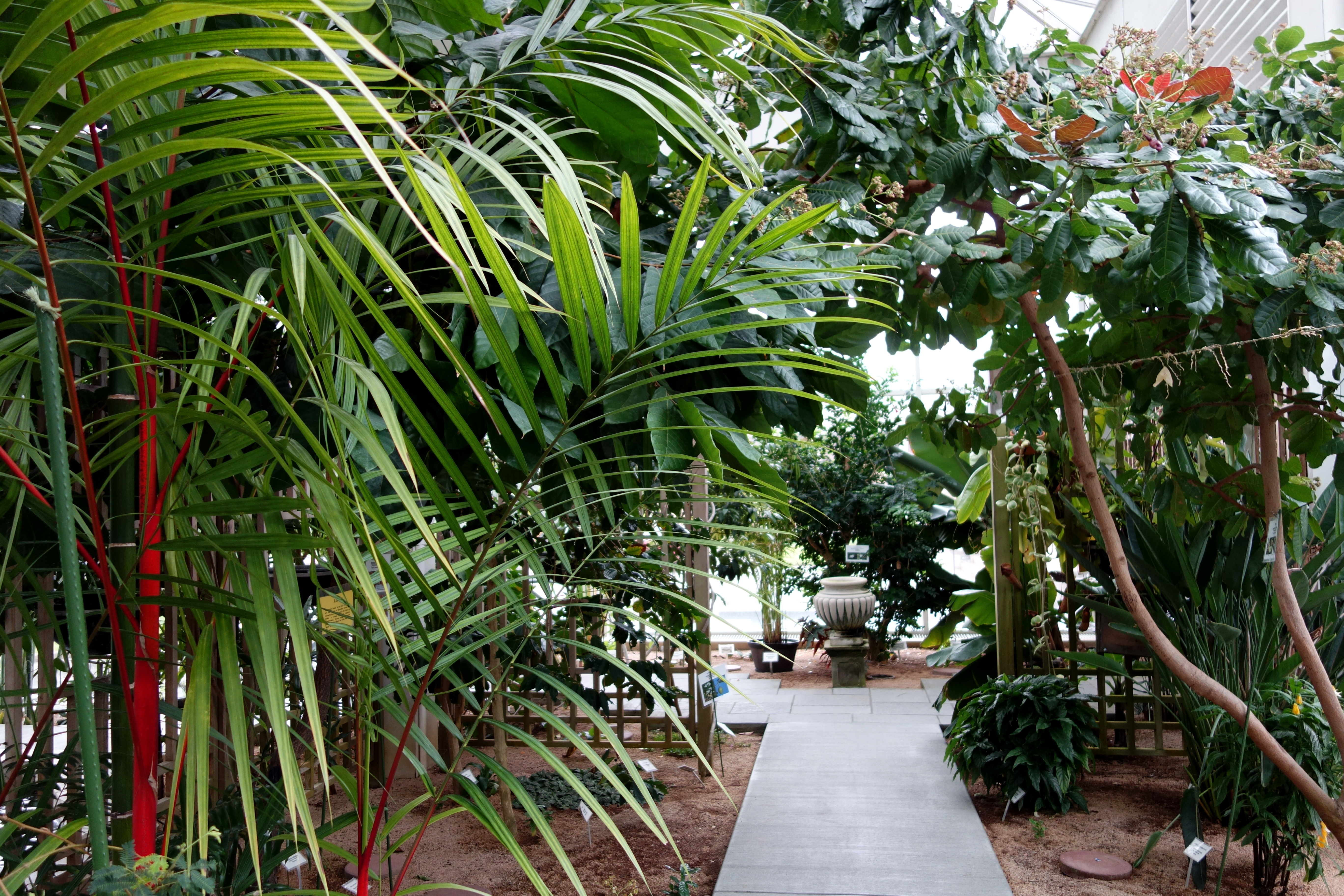 Exhibit in the C. Fred Edwards Conservatory, Huntington Museum of Art, Huntington, West Virginia, USA.